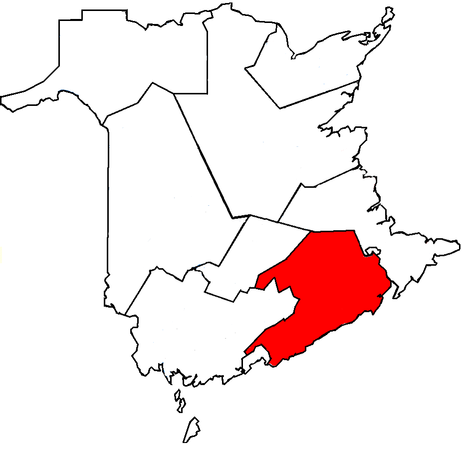 Map of the Fundy Royal electoral district. Based on Earl Andrew's maps, created by SimonP.